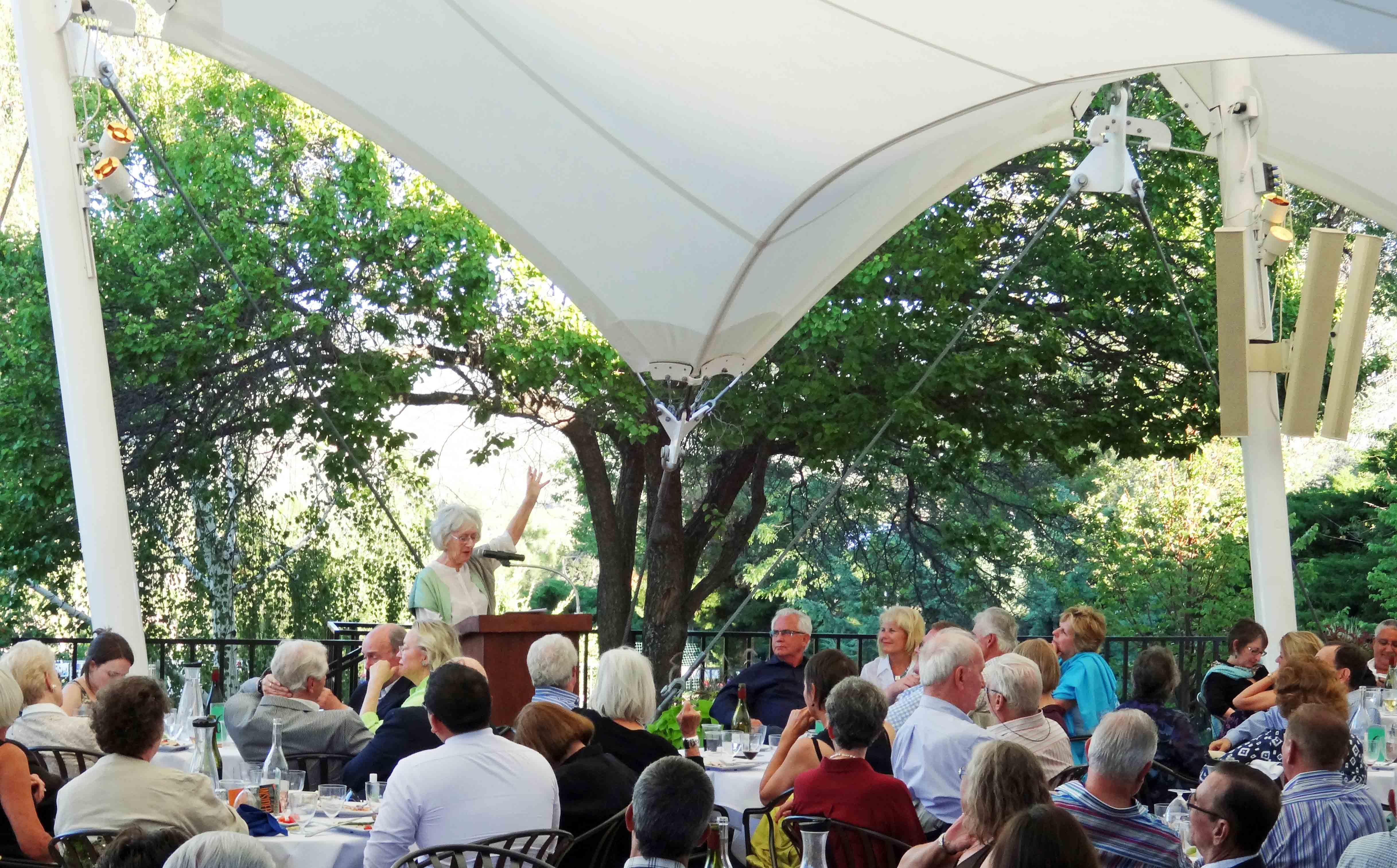 Santa Fe Opera-Dapples Pavilion-location for preview buffets